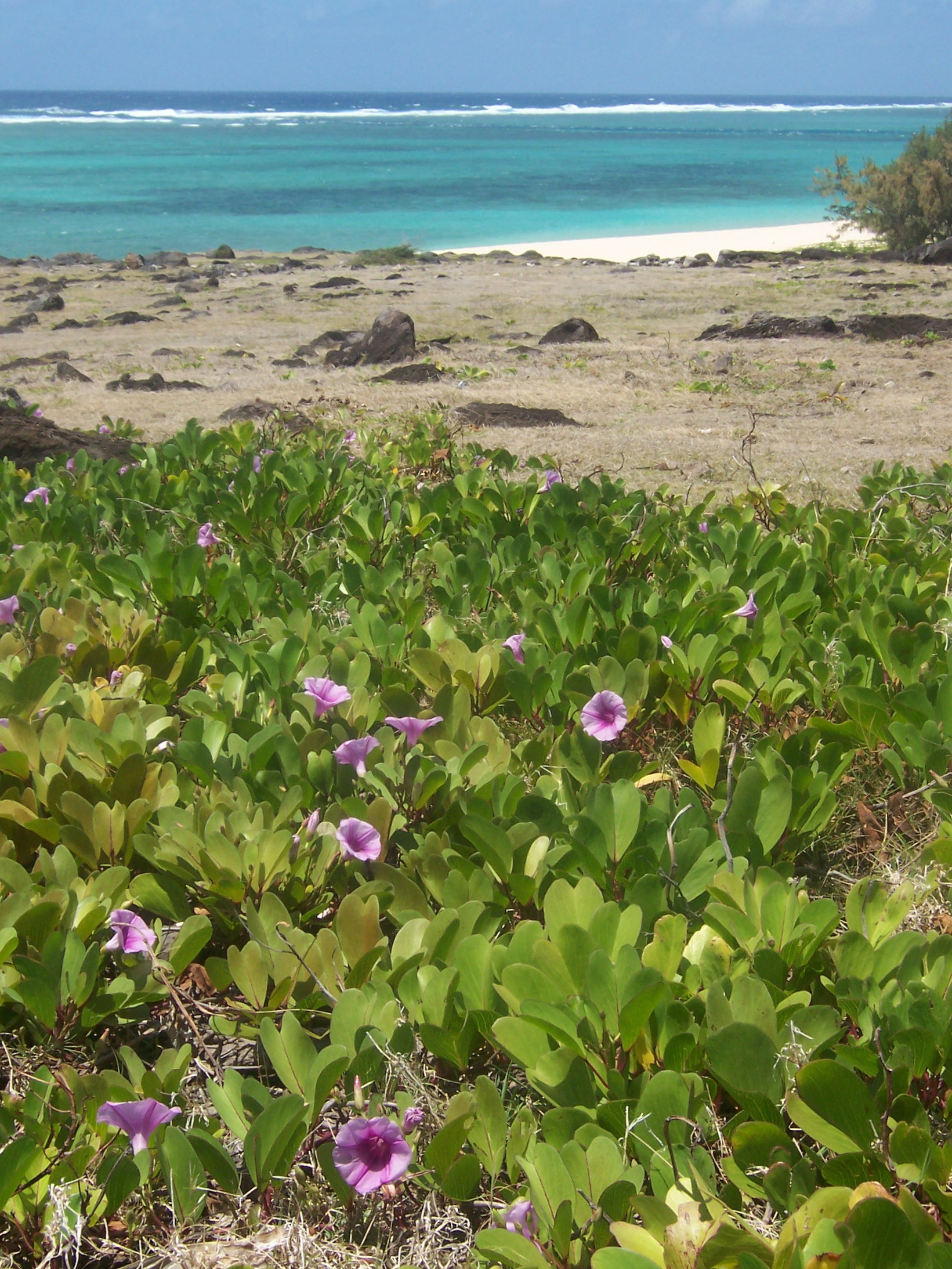 Ipomoea pes-caprae, on the shore of Rodrigues island